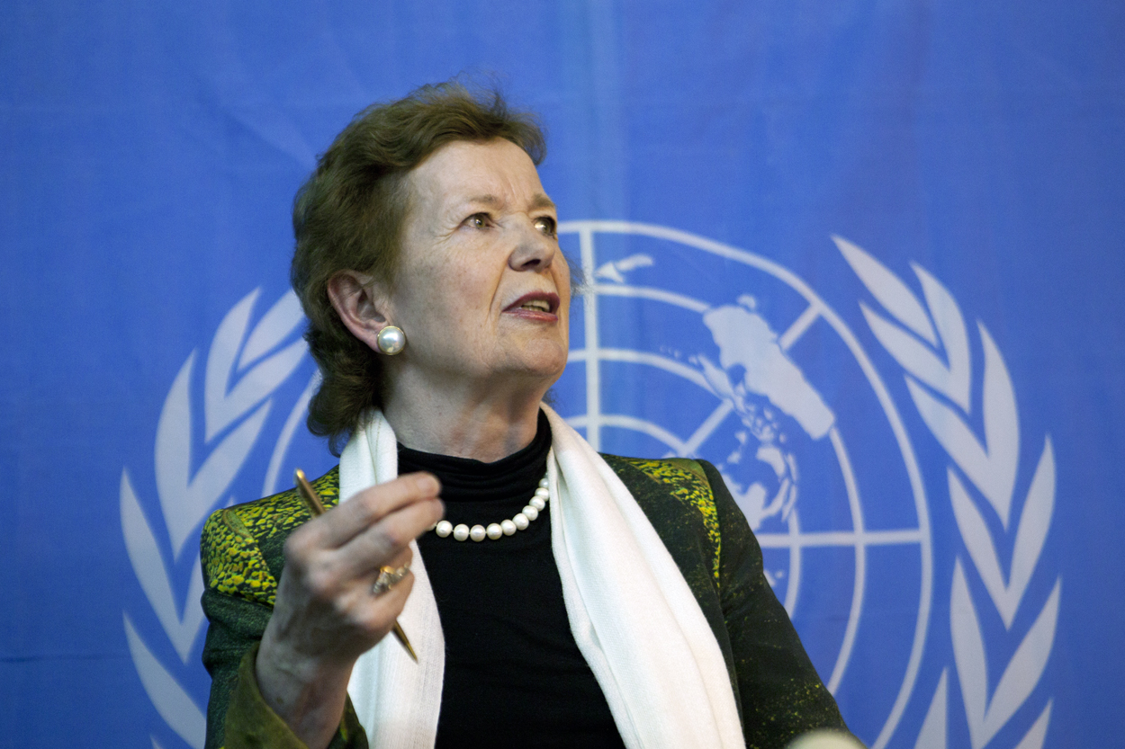 Mary Robinson, UN Sepecial Envoy for the Great Lake Region during press conference in Goma, the 30th of April 2013.